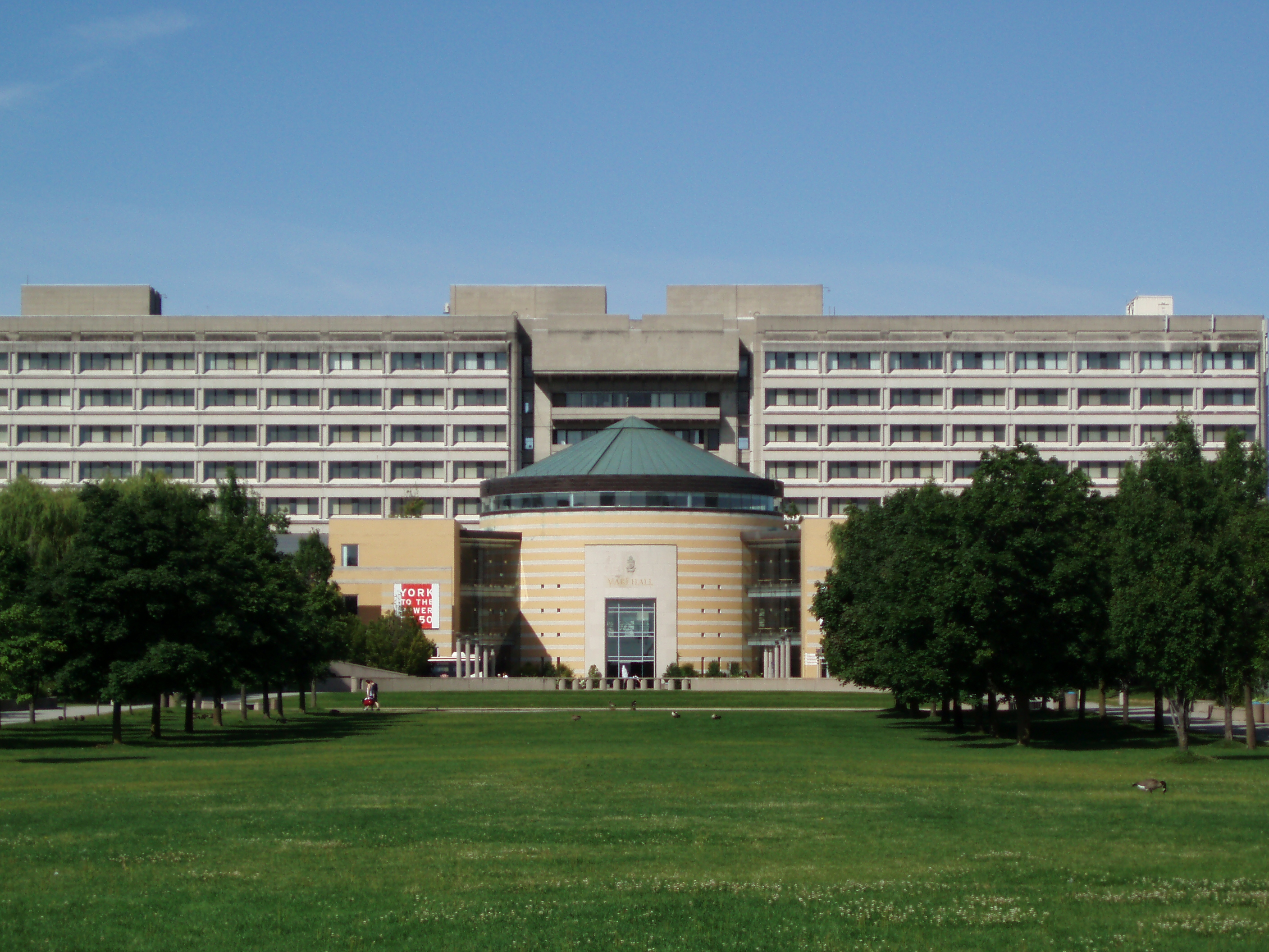 Vari Hall, York University